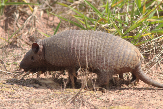 Tatu tail soft an animal eater of insects